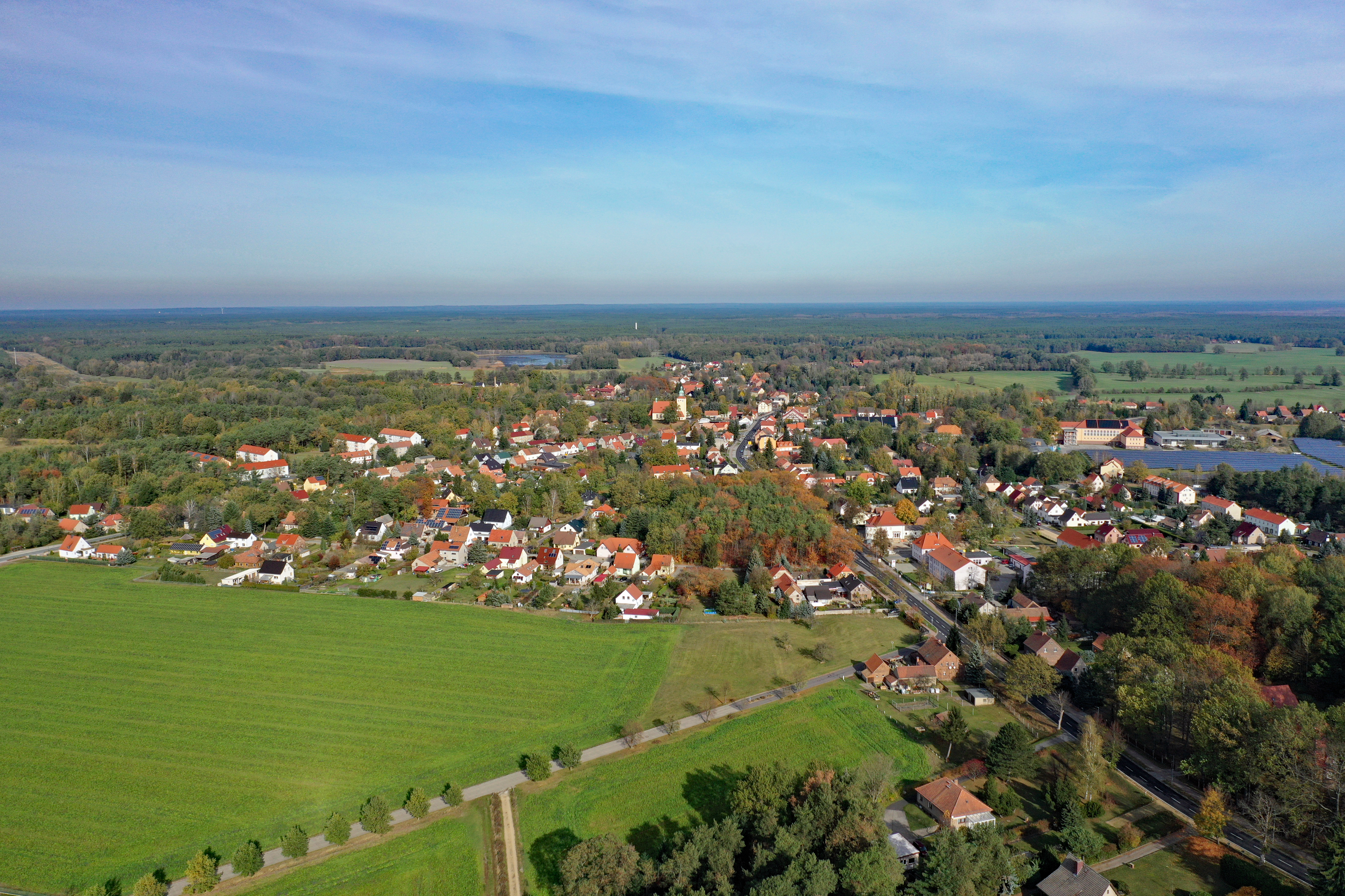 Rietschen (Landkreis Görlitz, Saxony, Germany) Hornjoserbsce: Powětrowy wobraz Rěčic